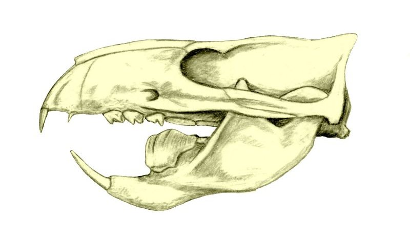 Crop of file in filename